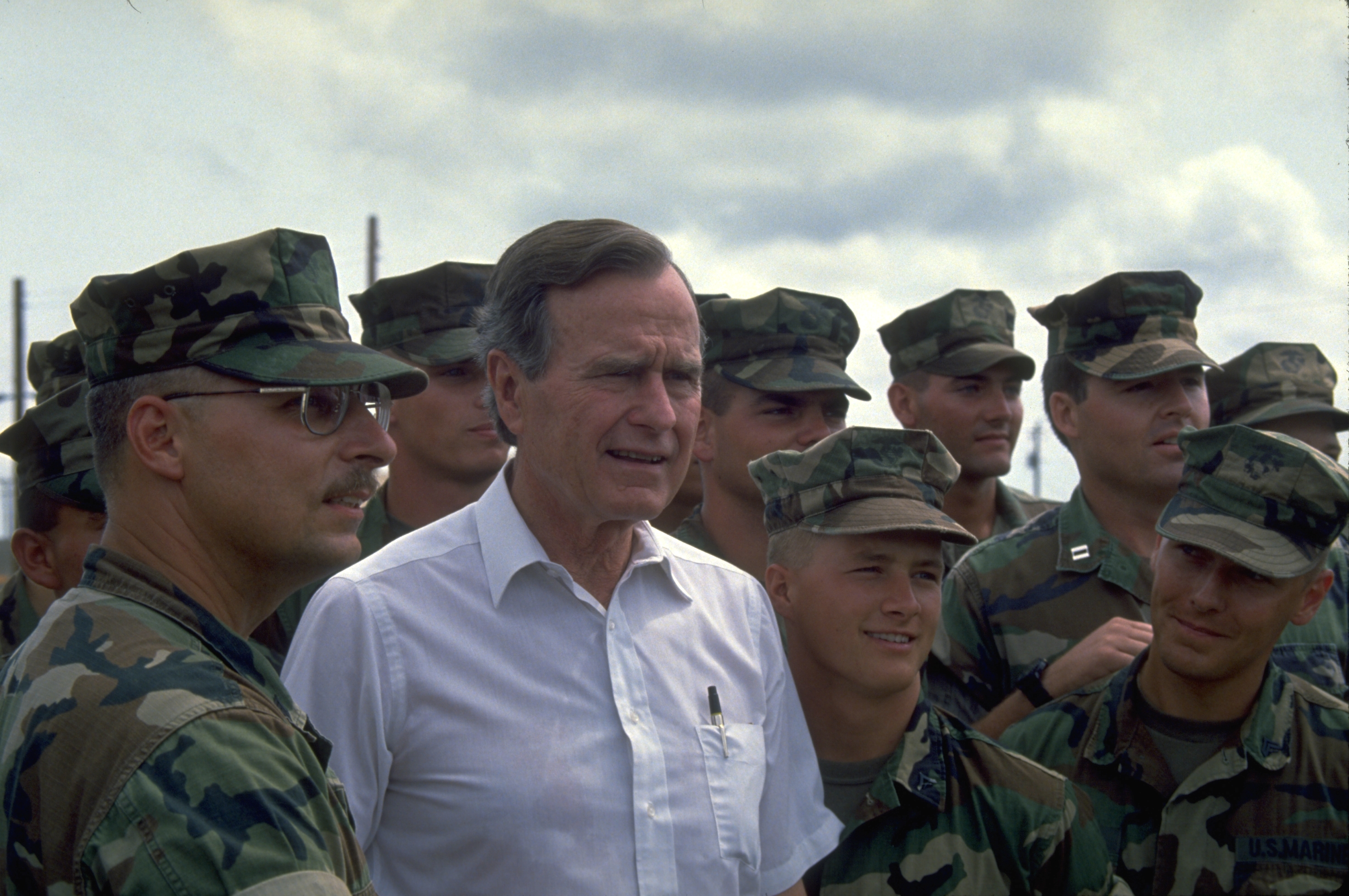 Homestead, FL, August 24, 1992 -- President Bush poses with military personnel. FEMA News Photo